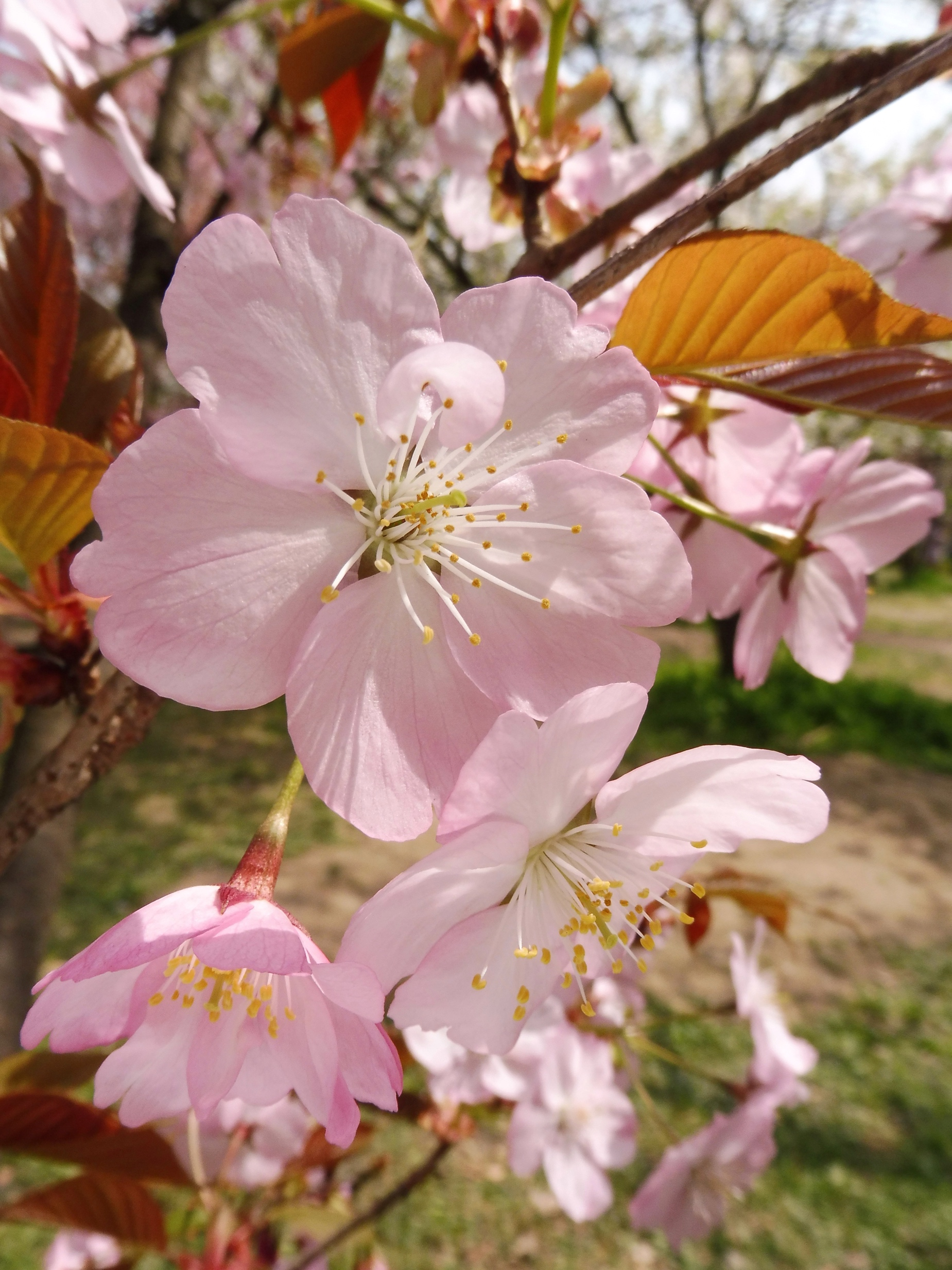 Prunus jamasakura 'Kenrokuen-Kumagai' Location: Kyoto Botanical Garden, Shimogamo-Nakaragi, Sakyo-ku, Kyoto, Japan. Date: 2018/04/01 (YYYY/MM/DD)